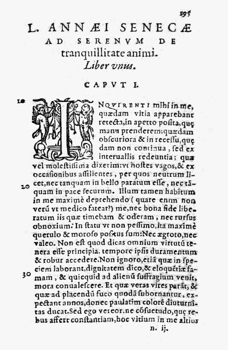 Page 395 of L. Annaei Senecae operum tomus secundus. (1594). Published by Jean Le Preux.